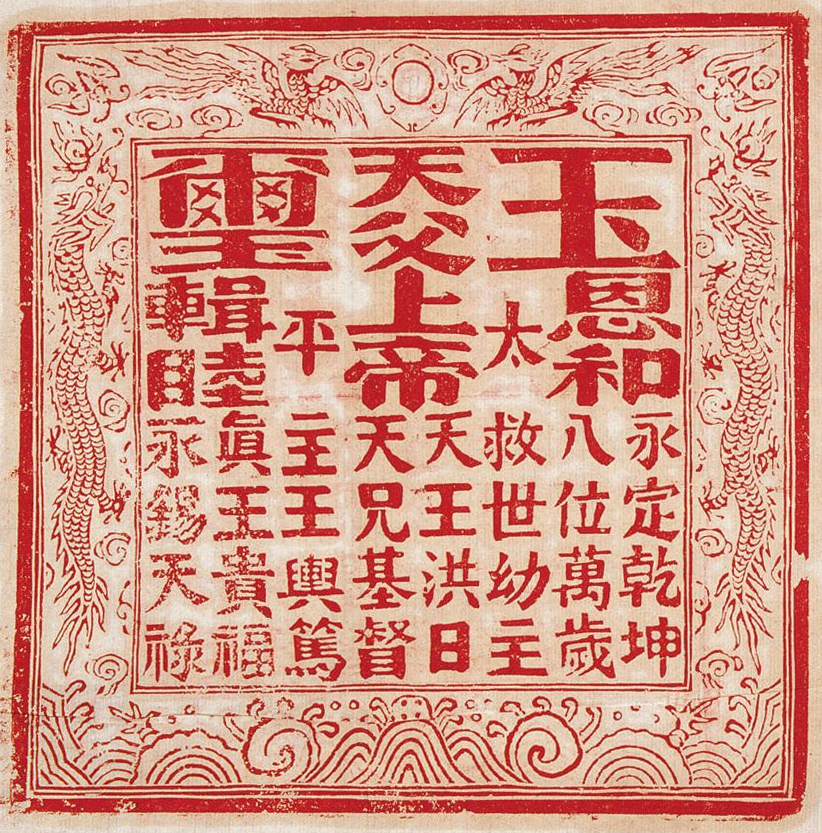 Seal of the Taiping Revolution during Ching Empire.Historic document.